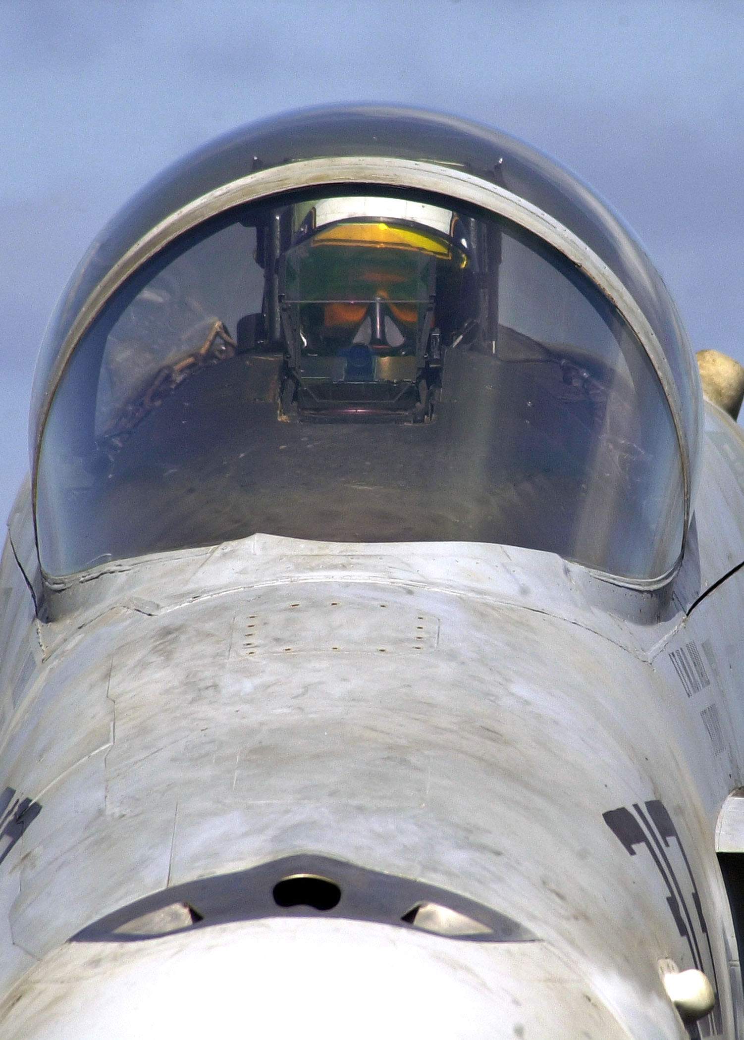 Pacific Ocean (May 28, 2003) - A pilot assigned to the "Vigilantes" of Strike Fighter Squadron One Five One (VFA-151) looks through his Heads-Up Display (HUD) while sitting in his F/A-18C Hornet aboard the aircraft carrier USS Constellation (CV 64). Constellation and embarked Carrier Air Wing Two (CVW-2) are on a regularly scheduled deployment in support of Operation Iraqi Freedom (OIF), the multinational coalition effort to liberate the Iraqi people, eliminate Iraq's weapons of mass destruction and end the regime of Saddam Hussein. U.S. Navy photo by Photographer's Mate 2nd Class Daniel J. McLain (RELEASED)